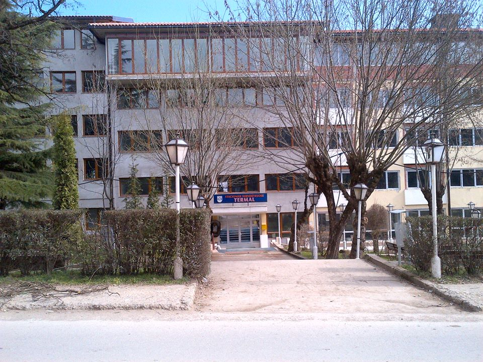 Hotel “Termal""